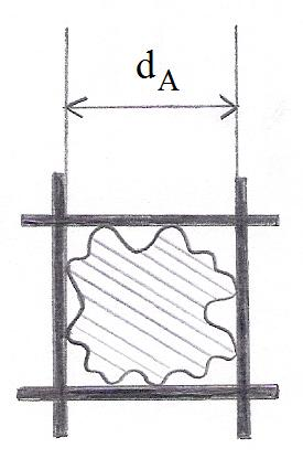 dsequivalent6